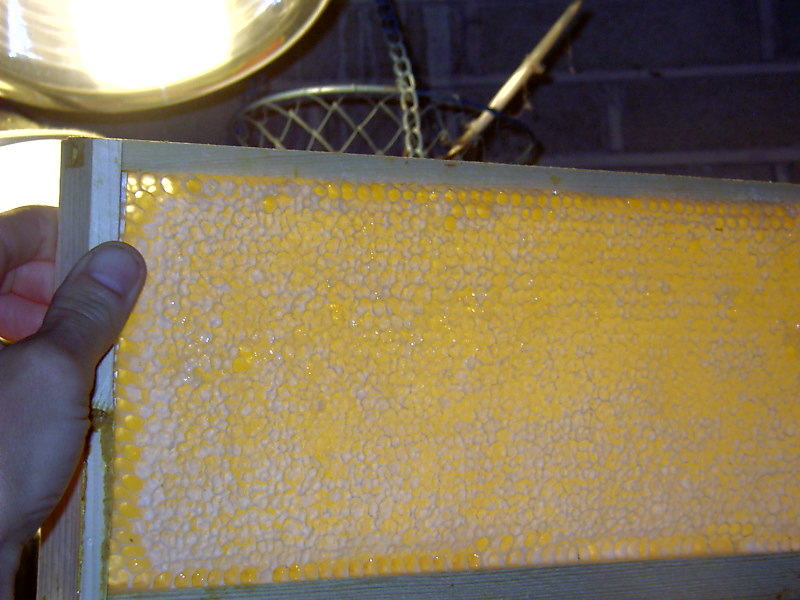 Honey in capped cells on frame as seen above Taken by user:shoefly 2004